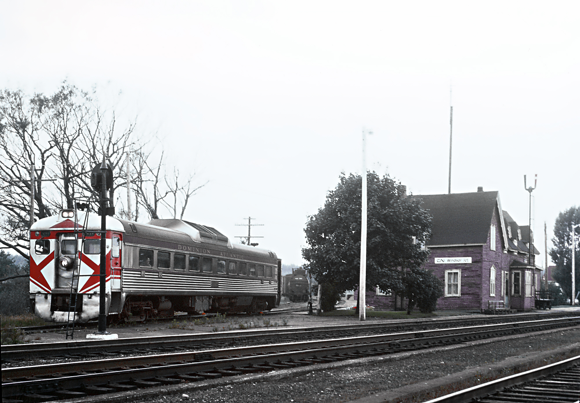 At CN station at Windsor Jct. A Roger Puta Photograph